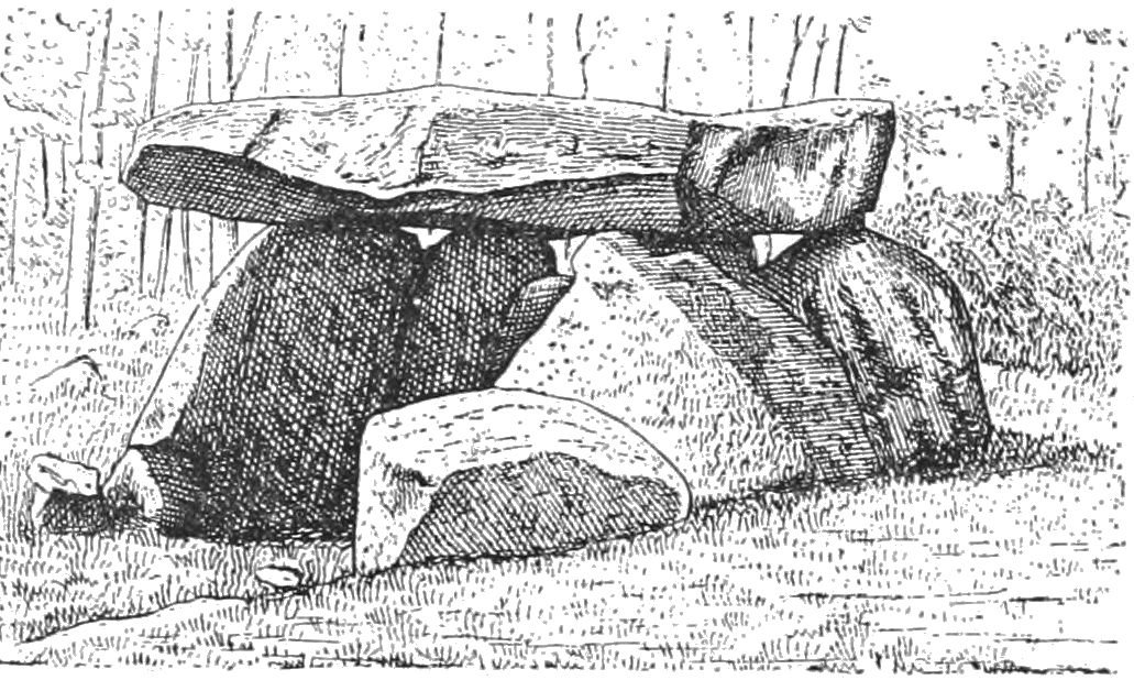 Anta of the wood of Freixo